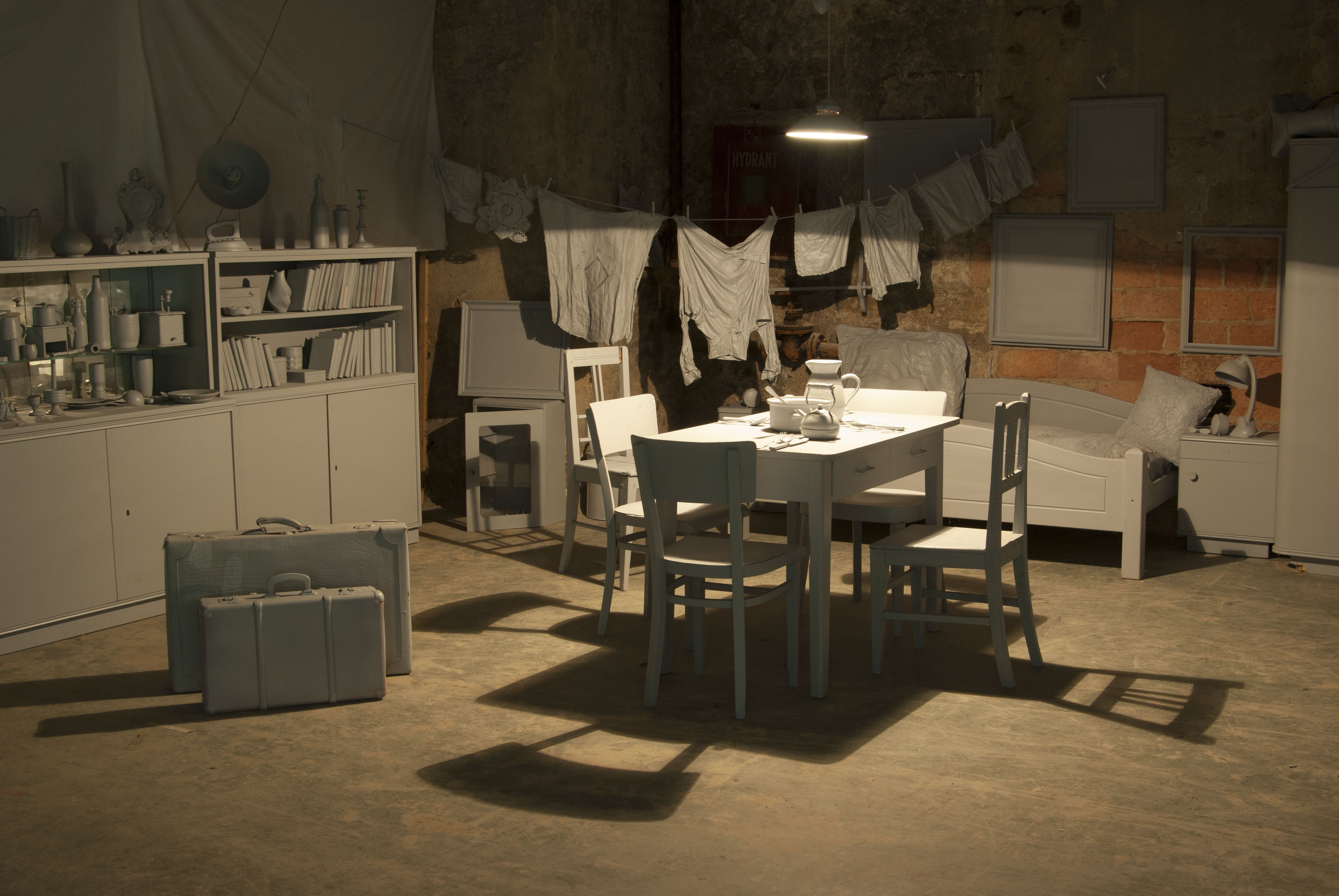 Kamila Ženatá: Women’s Yard, DOX - Centre for contemporary art, Prague, 2013